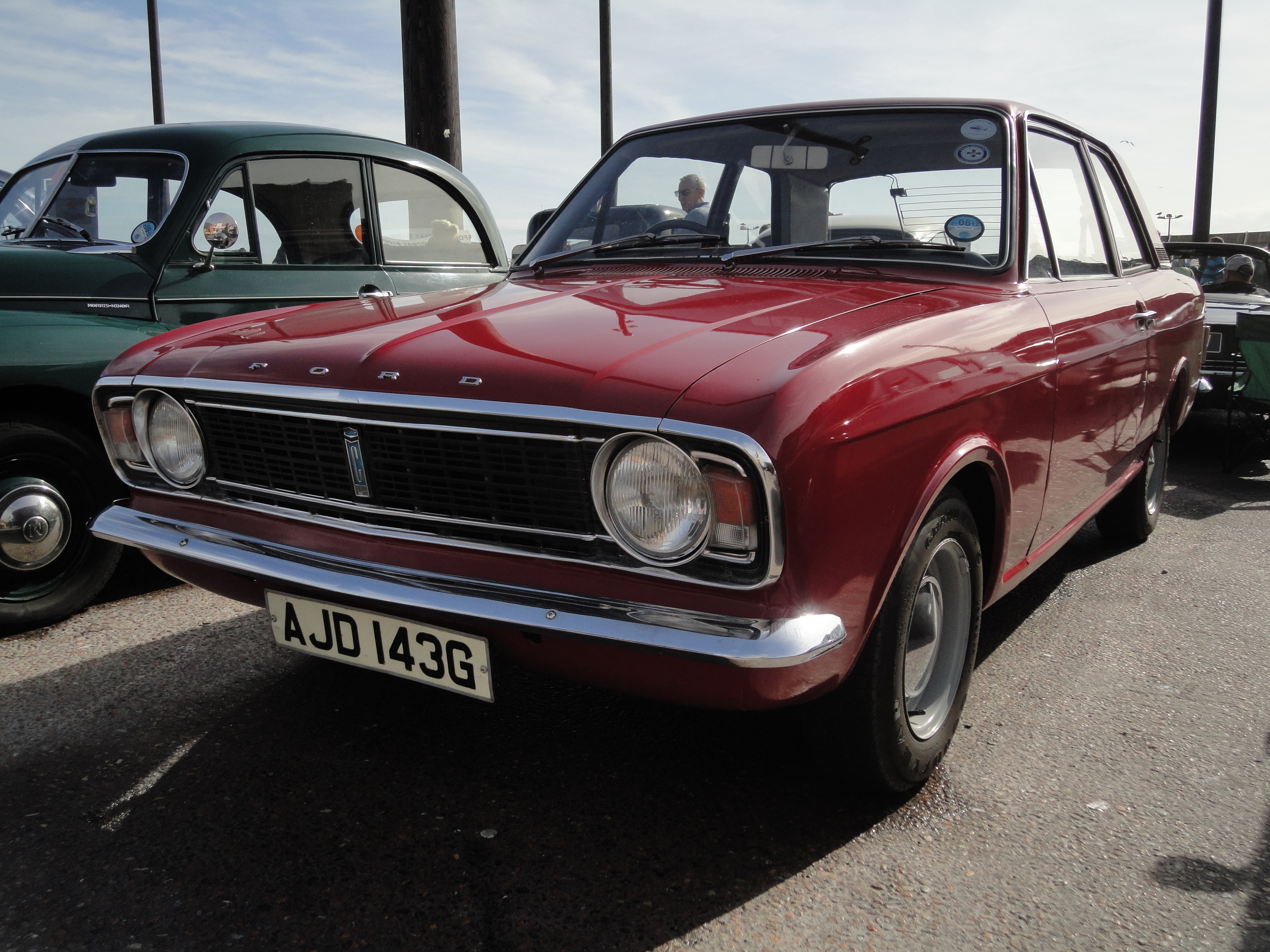 Hastings,Oct 2011